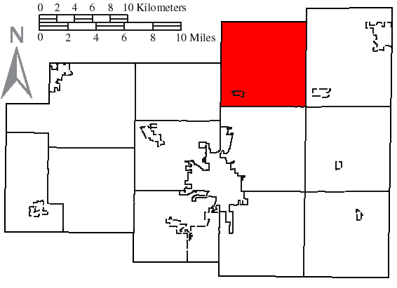 Made by the US Census and modified by myself to highlight the township